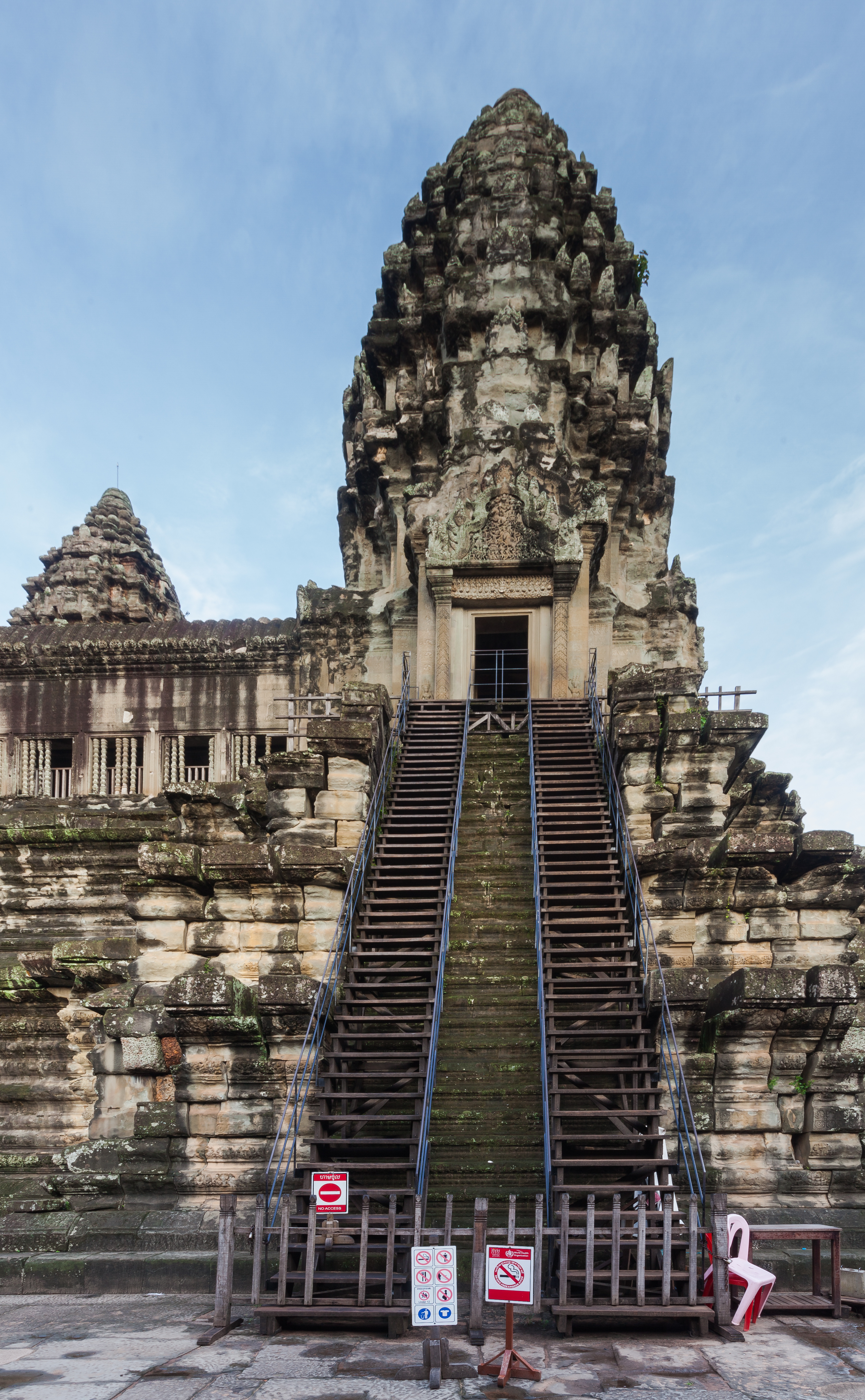 Angkor Wat, Cambodia